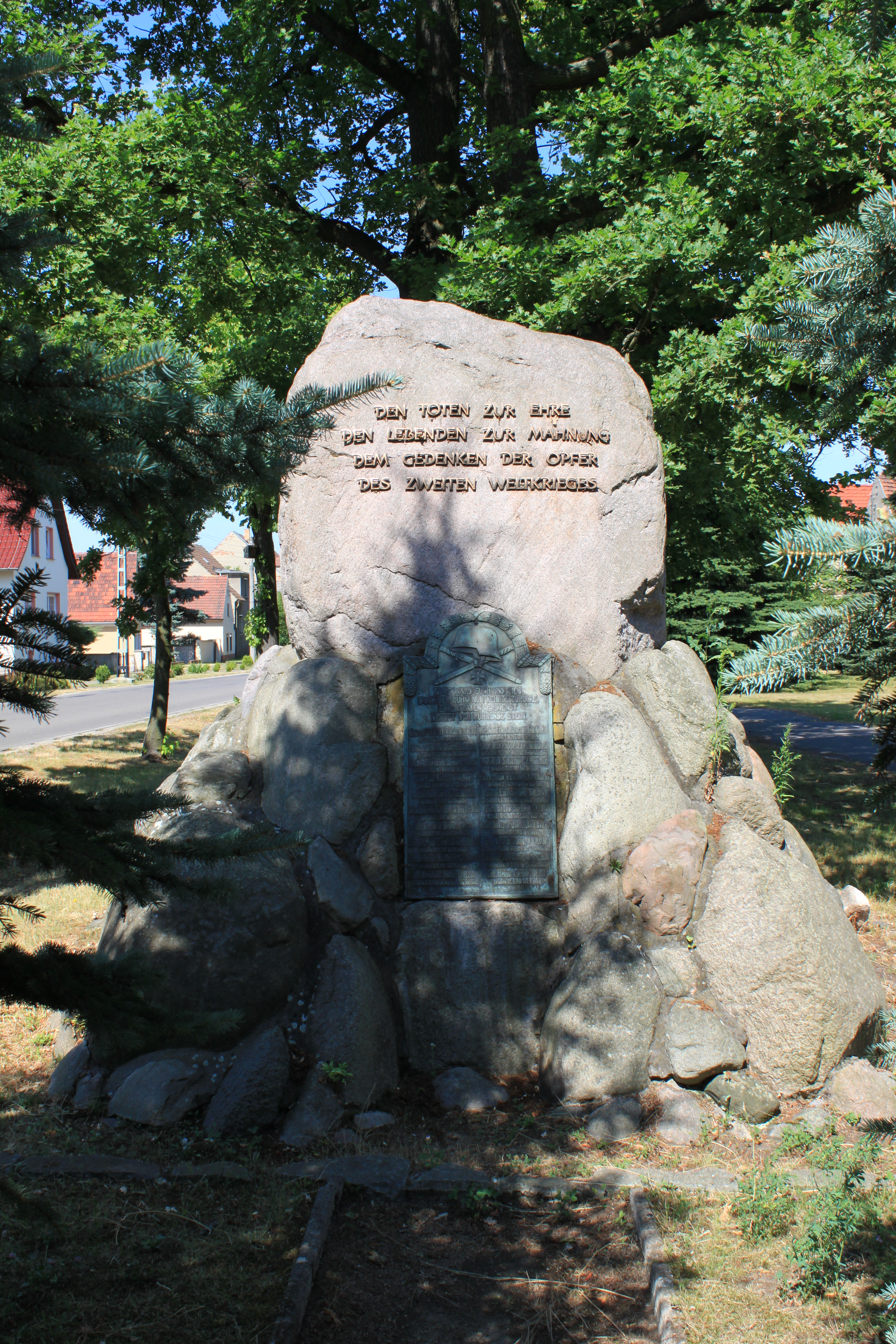 Domsdorf